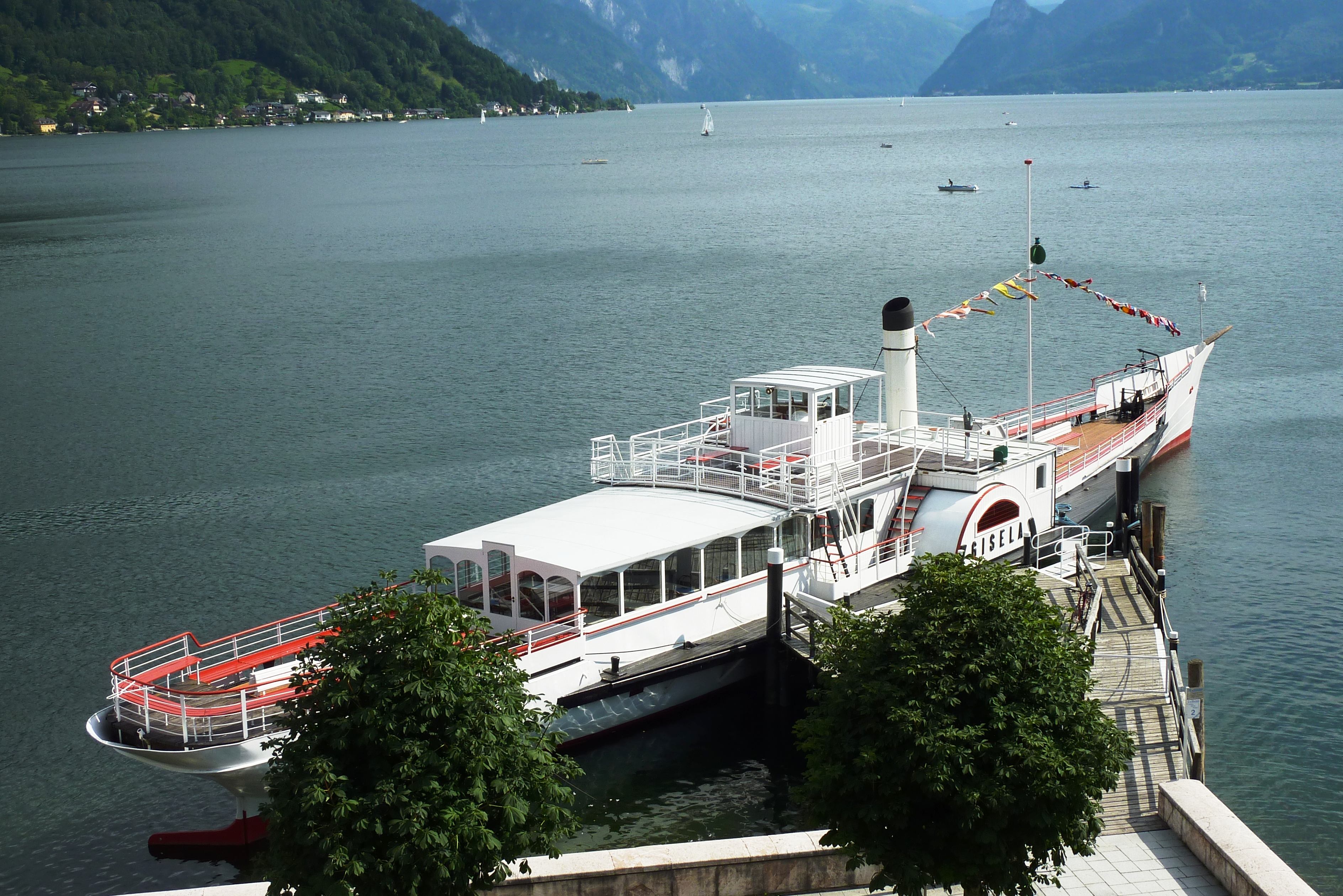 Paddle steamer Gisela on Lake Traun